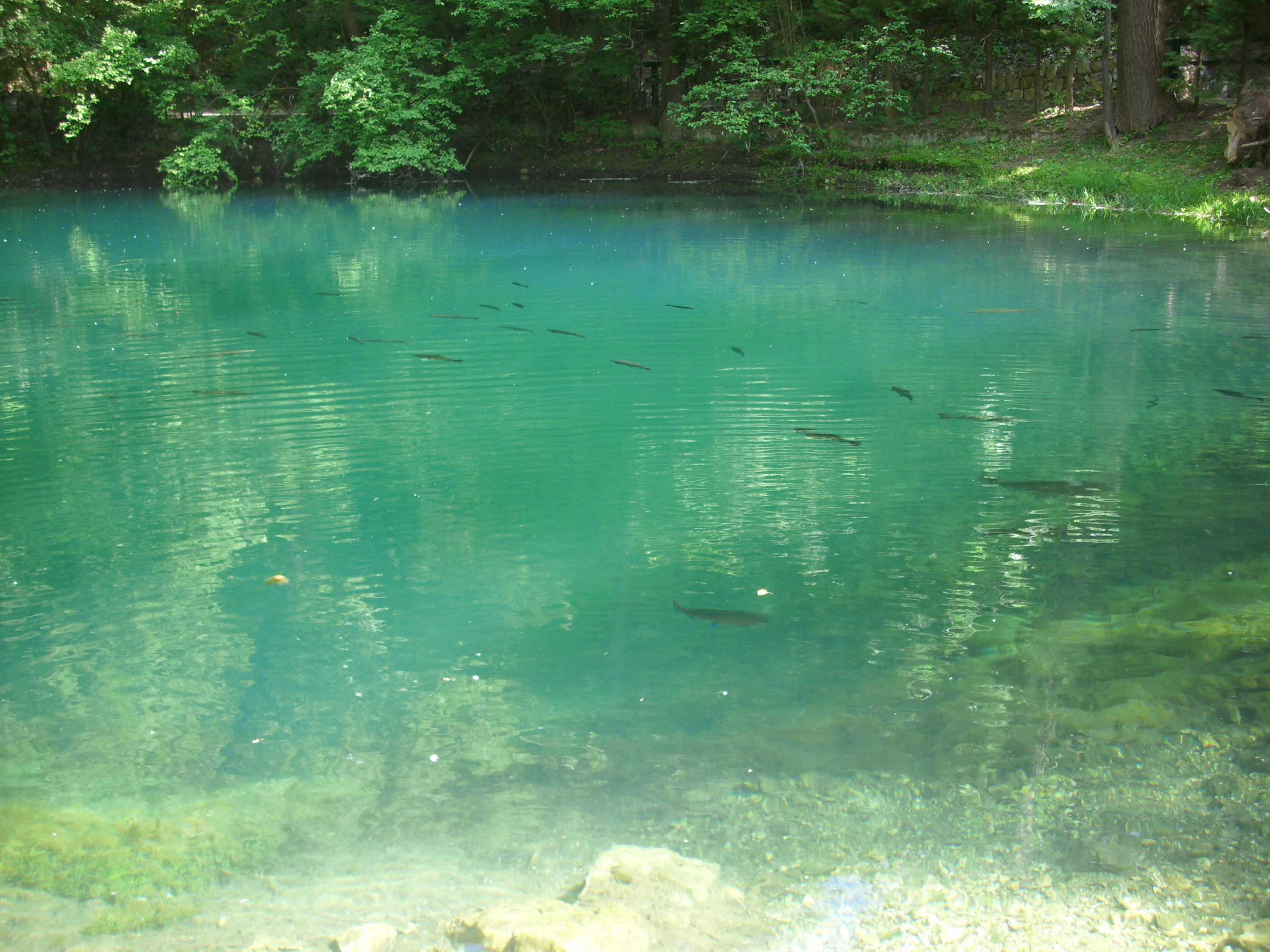 Žagubičko vrelo